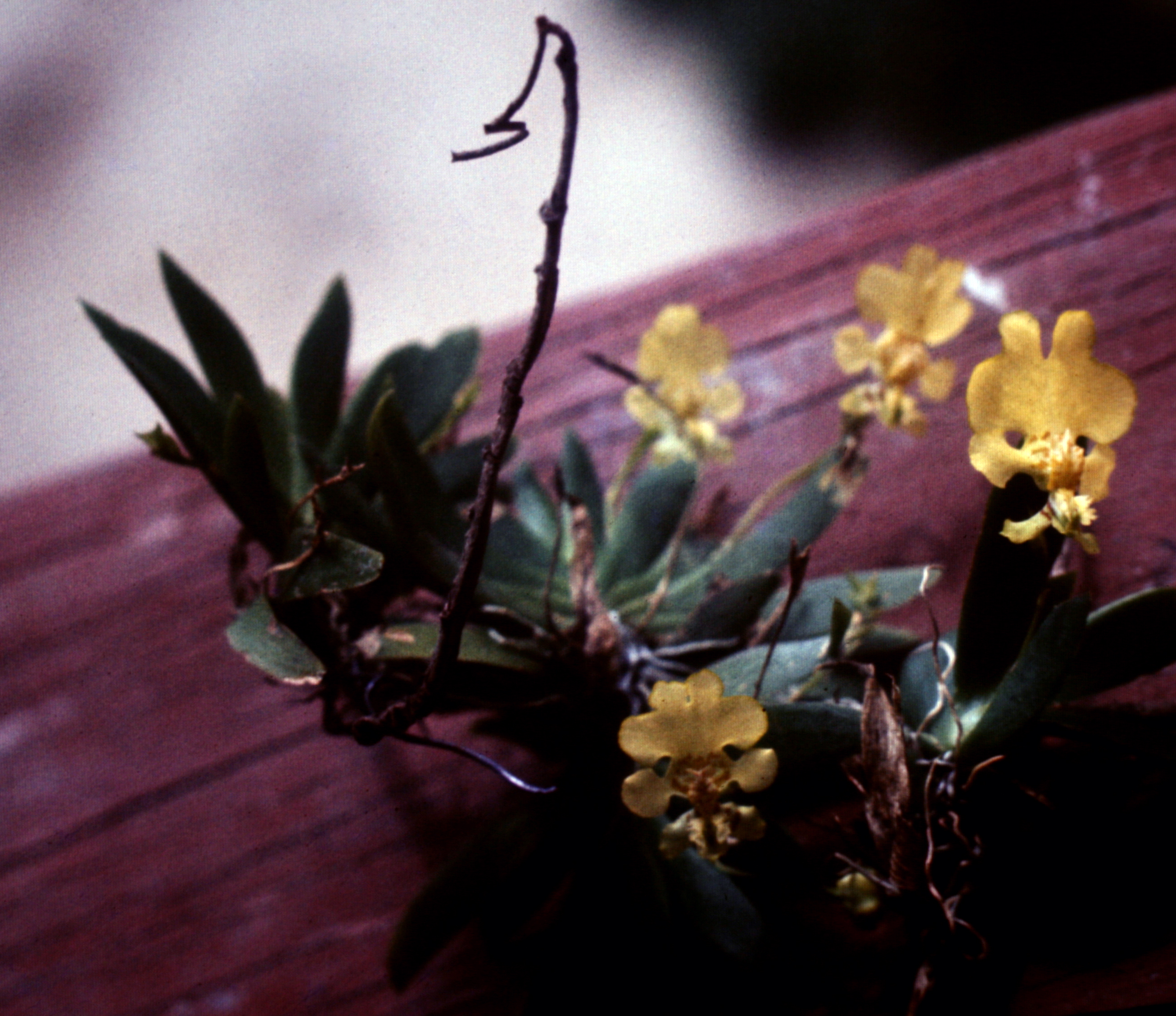 Psygmorchis pusilla, Suriname.